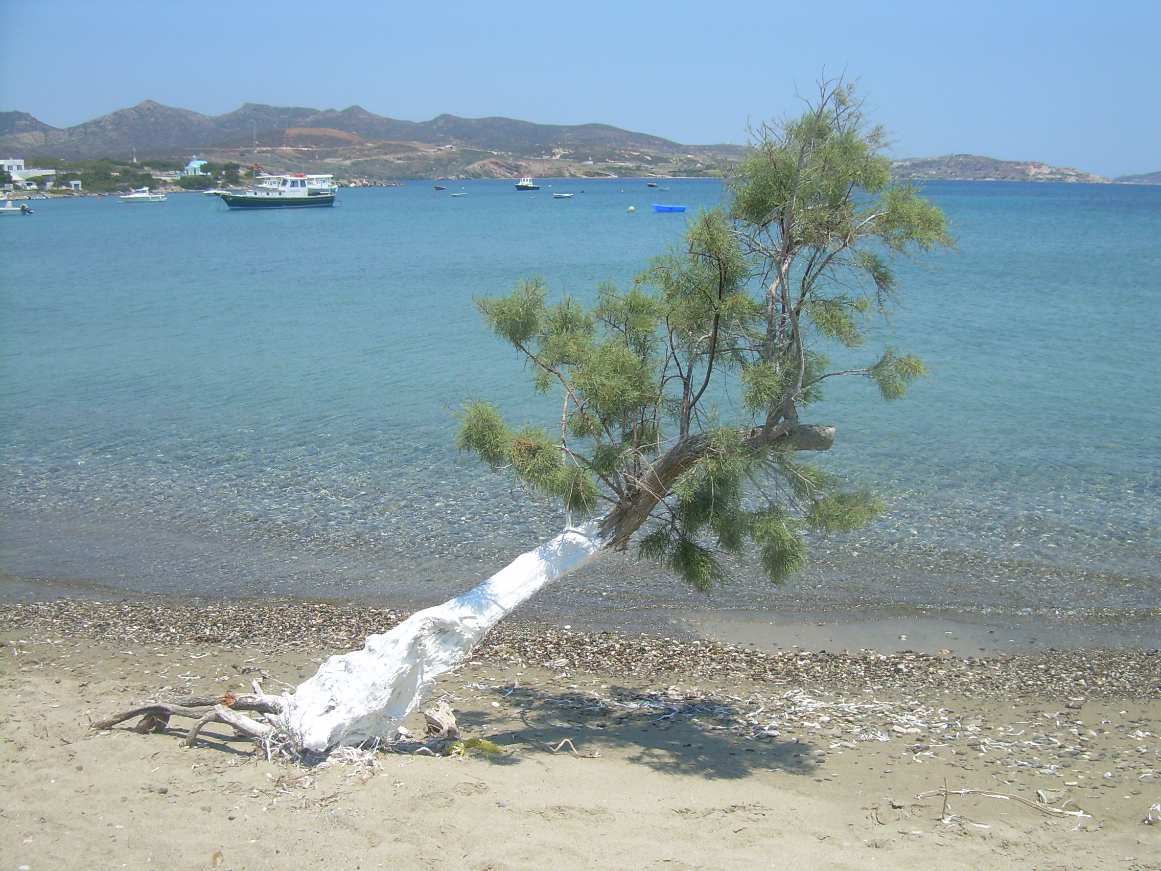 Tamarix, species endemic in Greece, next to the sea. Kimolos is seen from far away.